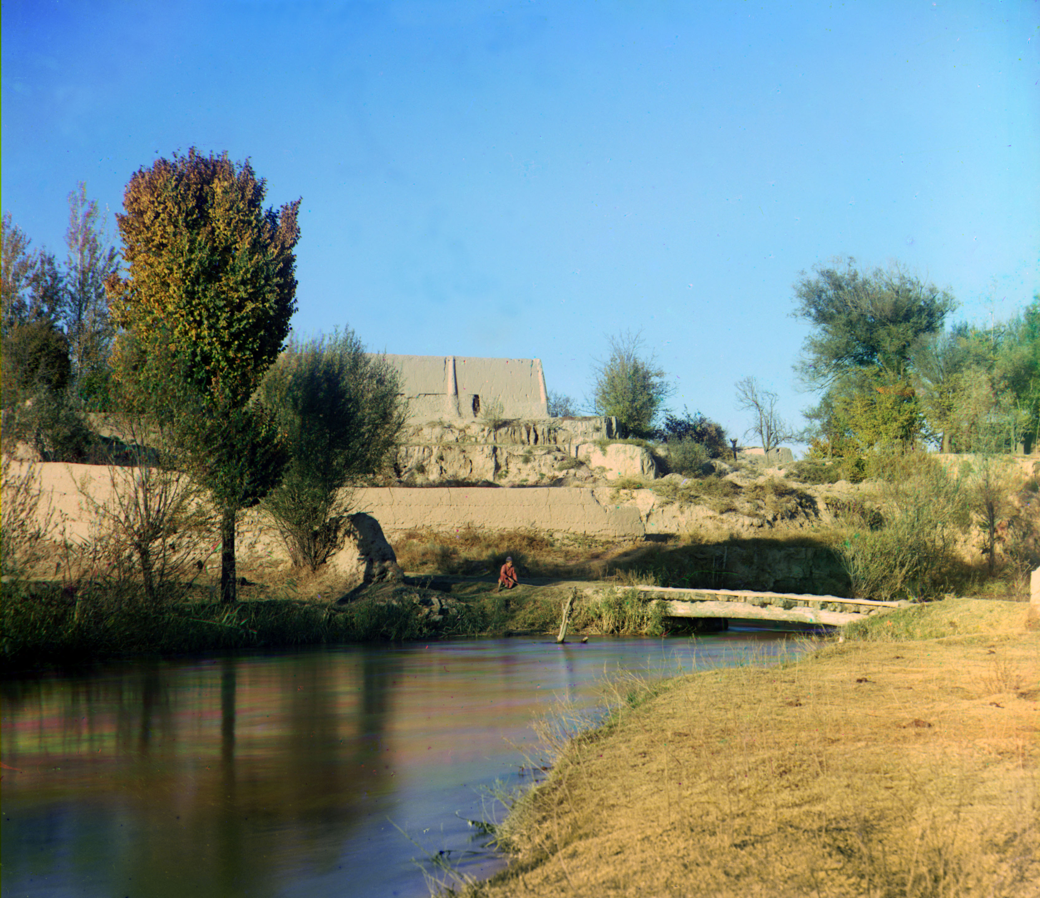 On the Siab River. Samarkand